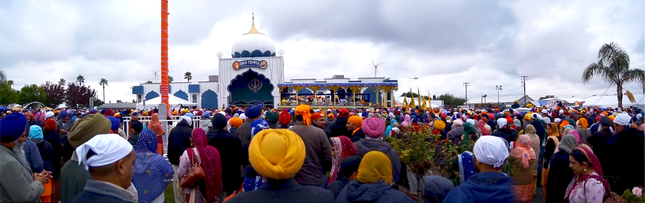 Nagar Kirtan crowd listening to Kirtan at Yuba City.